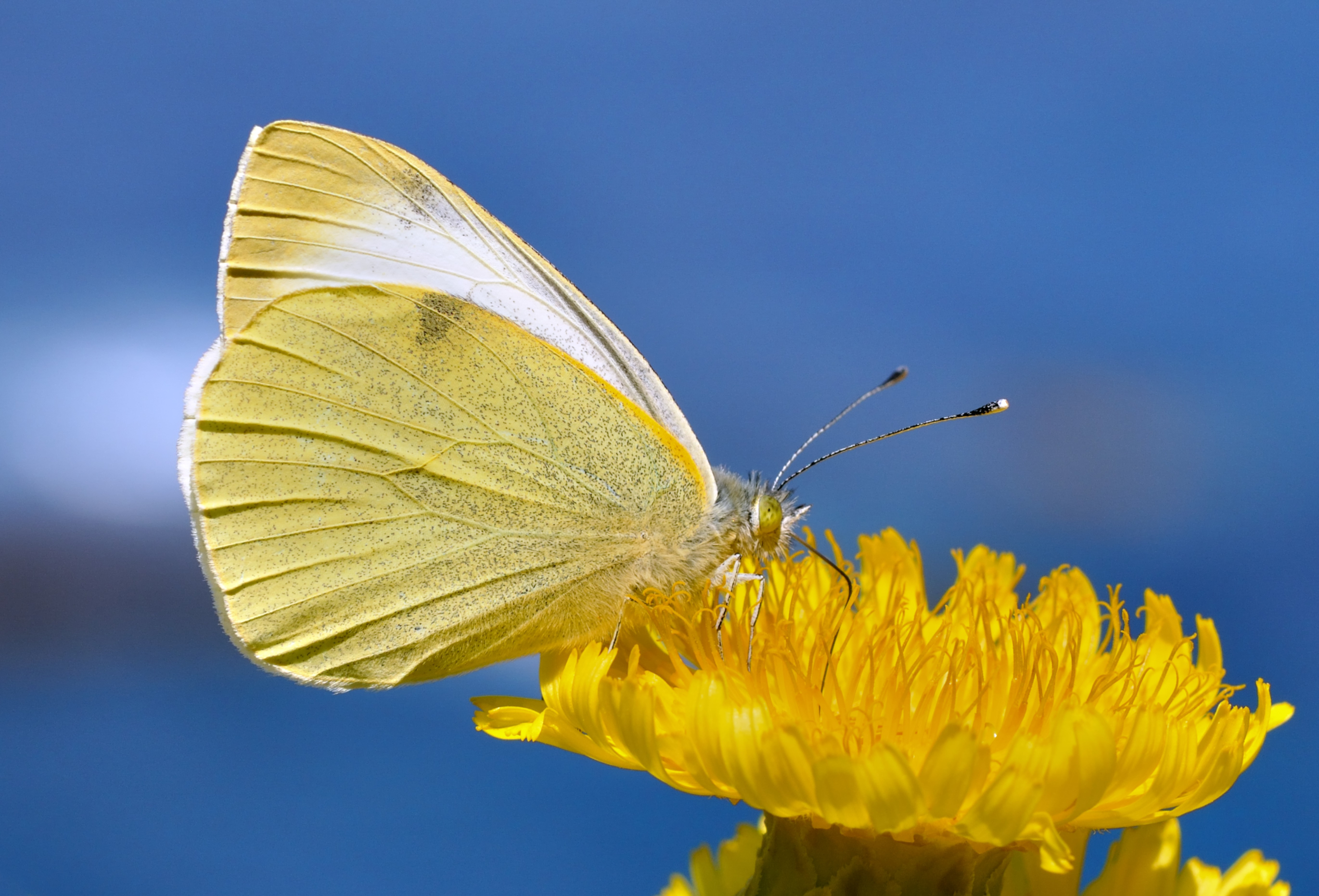 Alternative coloring of File:Pieris cheiranthi qtl1.jpg.